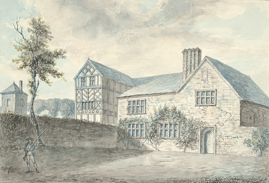 The abbots house at Alberbury, 1796